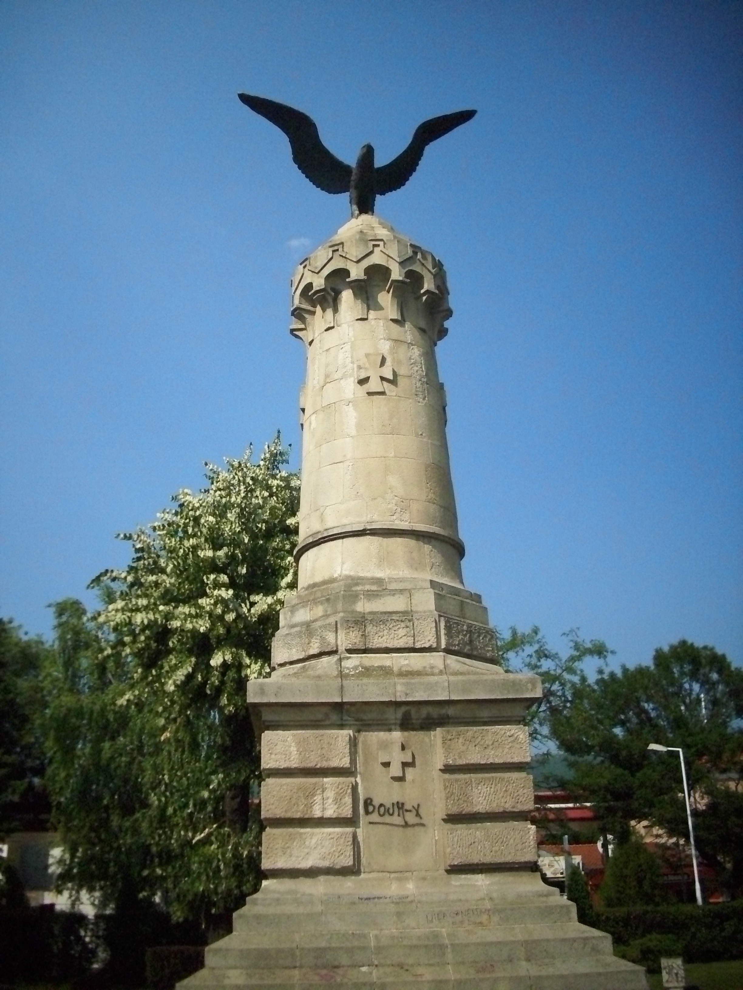 Monument of Milutin Karanović and others died in second Serbo-Turkish War